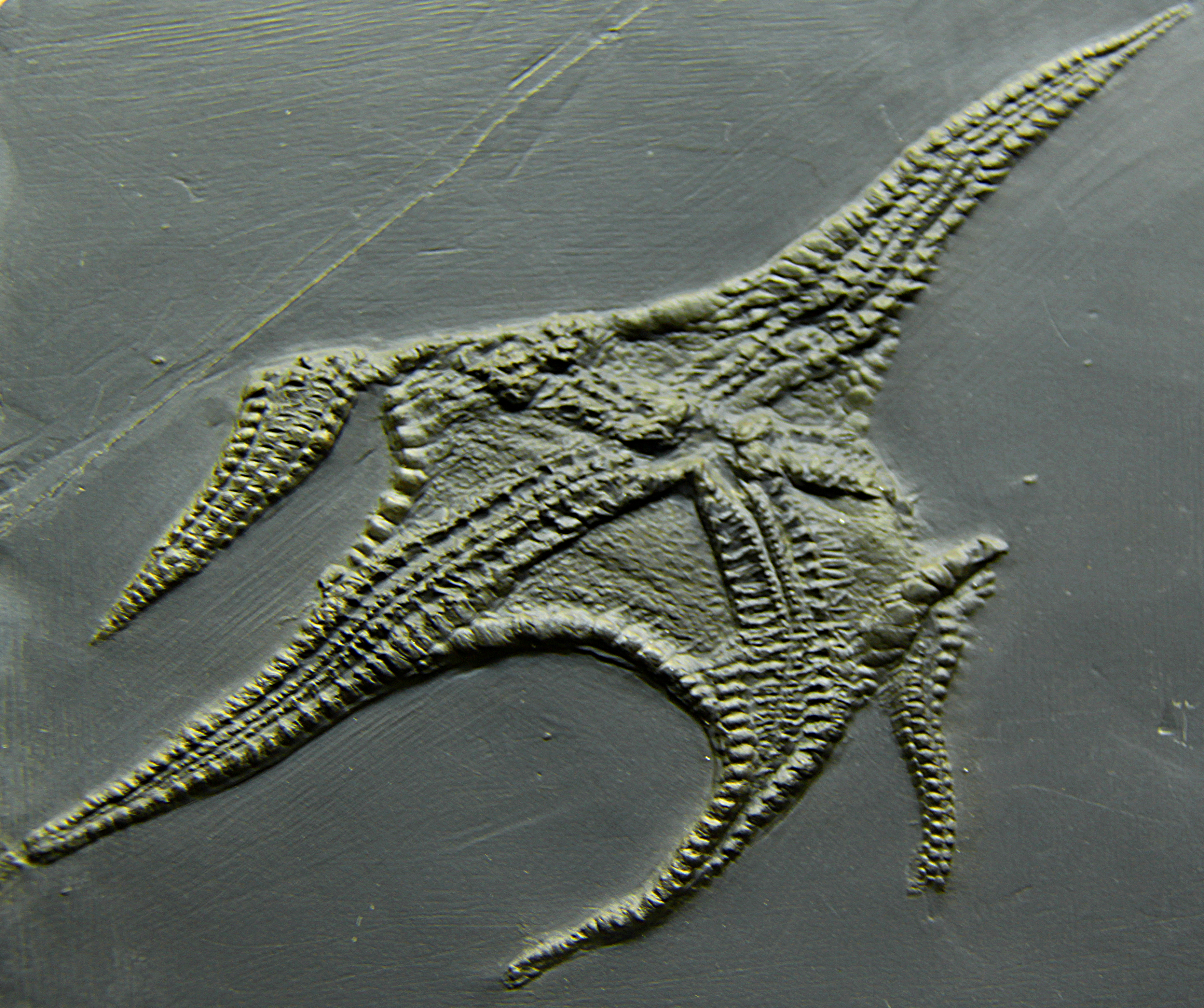 Euzonosoma tischbeinianum, a seastar, photographed in the Hunsrück Fossilienmuseum Bundenbach, from the Lower Devonian (Late Pragian to Early Emsian, 396-390 mya